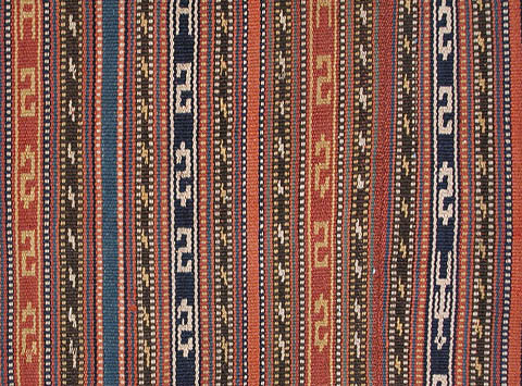 A kind of Kurdish carpets "jajim"